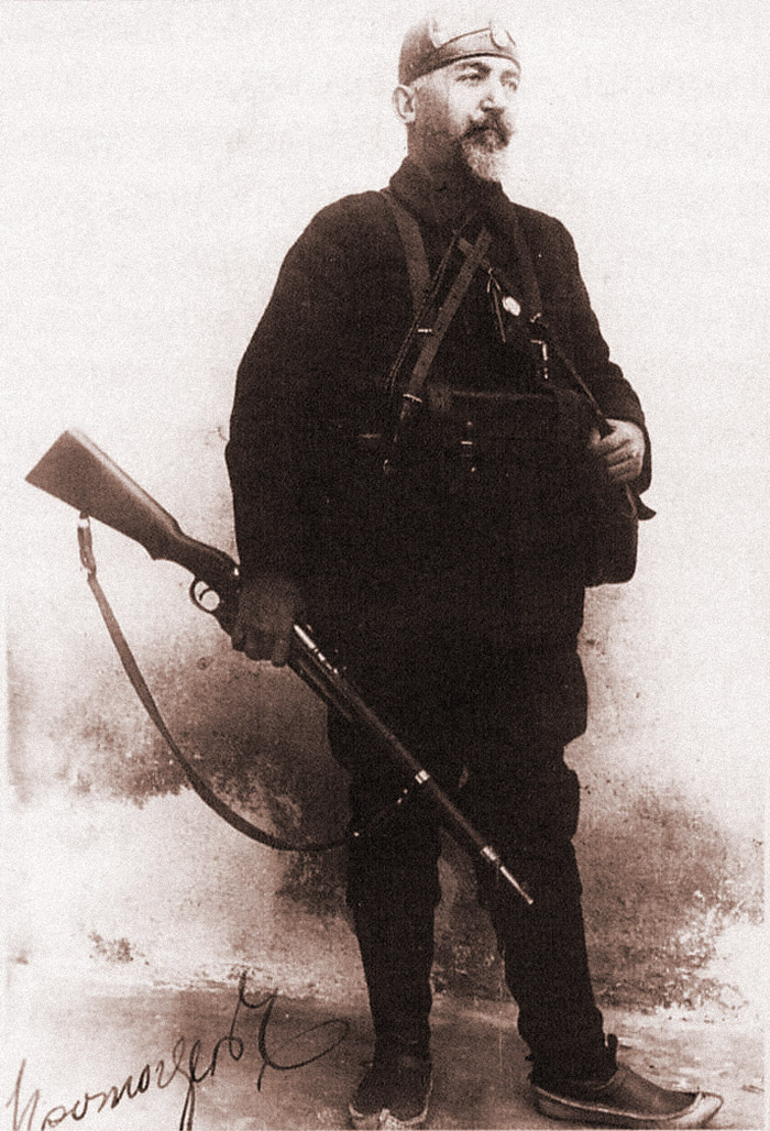 Portrait of Aleksander Protogerov, bulgarian general and revolutionary